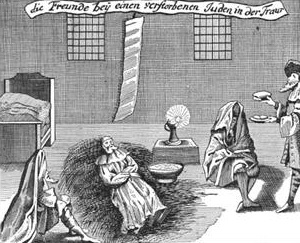 "Friends Giving Mourners Bread of Affliction" From "MOURNING" in : "The manner of mourning differed according to the degree of the loss and distress connected with it. The Gentile captive mourned for her parents by remaining within the house, weeping, cutting off her hair, and paring her nails, abundant hair and long nails being considered marks of feminine beauty; whereas among men, during mourning, the hair and nails were allowed to grow. Mourning was also marked by throwing dust on the head (Josh. vii. 6), by wearing sackcloth, sitting in ashes, lacerating the flesh, and tearing out the hair of the head and face (Jer. xvi. 6). Such self-mutilation, however, was forbidden by Moses (Lev. xxi. 5; Deut. xiv. 1). Other forms of mourning are indicated in Ezek. xxiv. 17, as (1) crying, (2) removing the head-dress, (3) removing the shoes, (4) covering the lips as a guard of silence, (5) eating "the bread of mourners" (Hos. ix. 4)".